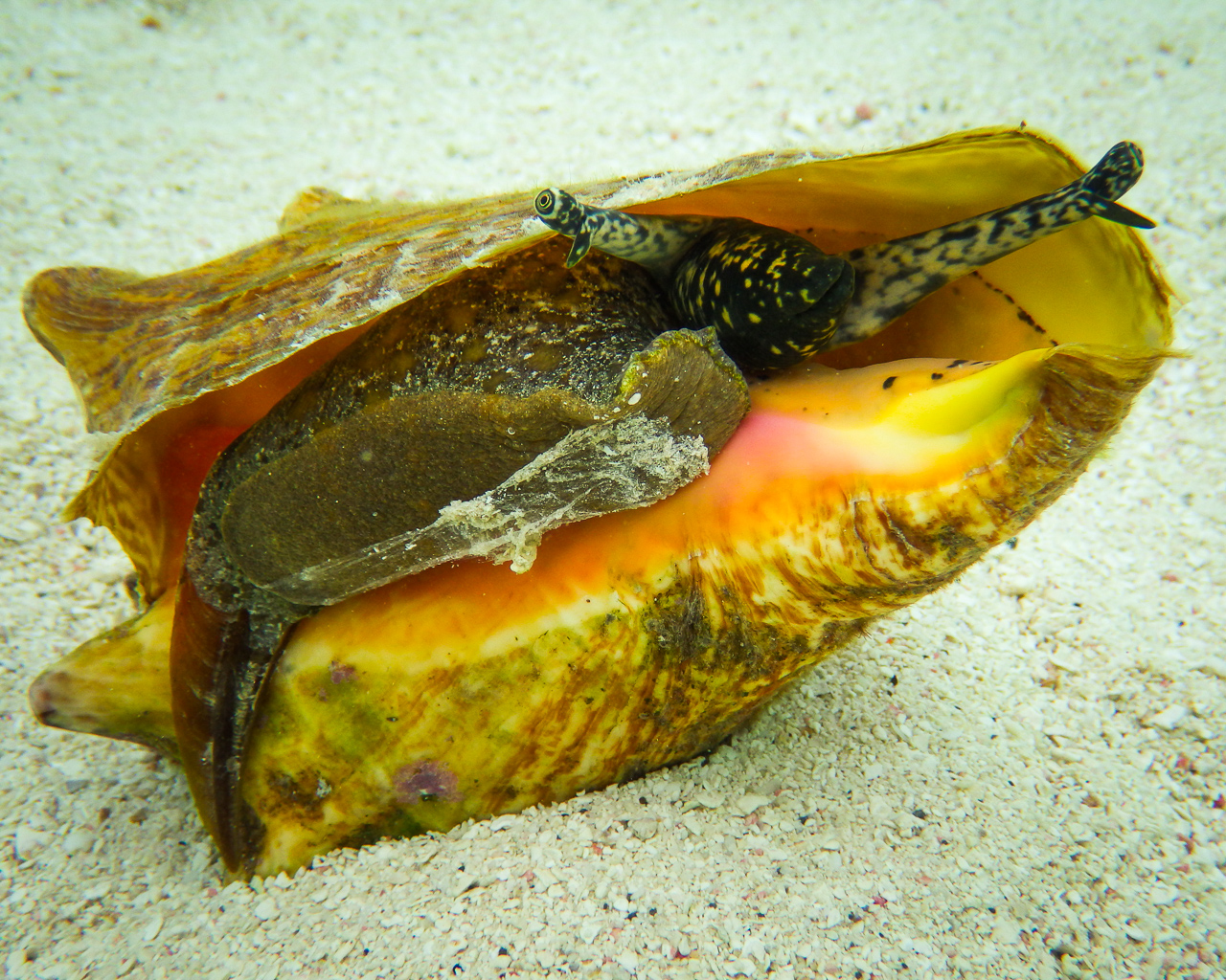 Queen Conch (Lobatus gigas)